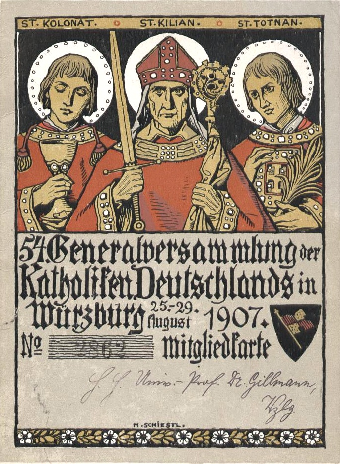 Matthäus Schiestl (1869-1939), Teilnahmekarte am Deutschen Katholikentag 1907, in Würzburg, mit den Frankenaposteln Kilian, Totnan und Kolonat.